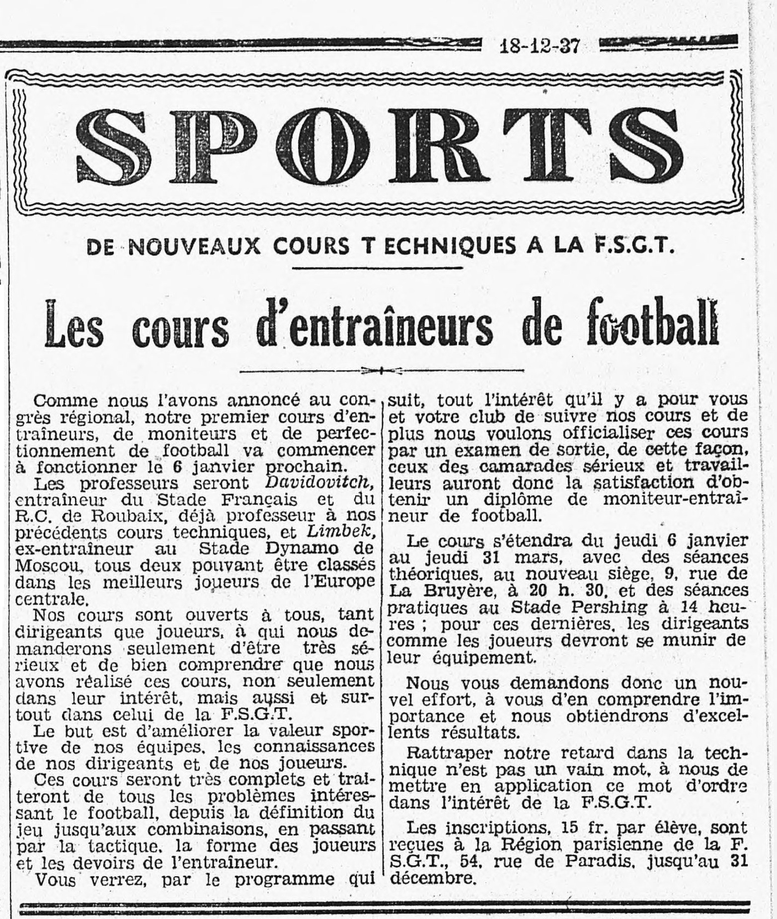 The 4th page of L'Humanité concerning the events around courses of football coaches.